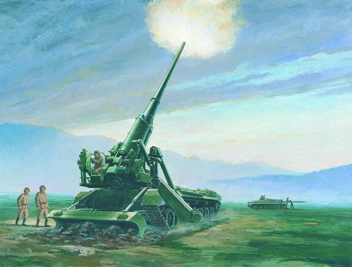 Soviet 2S7 (SO-203) 203 mm self-propelled gun firing.